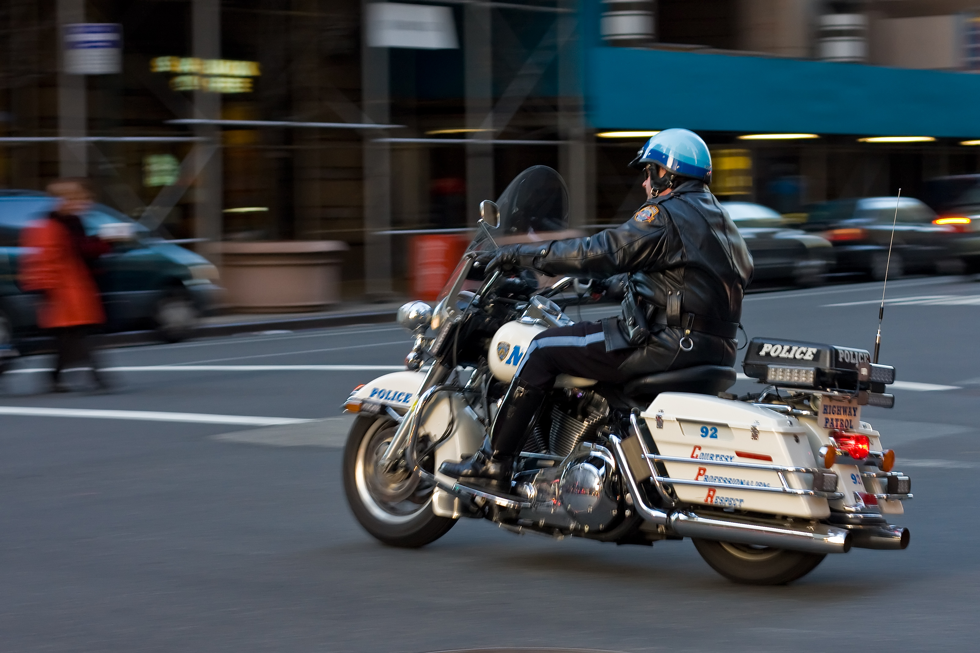 Police motorcycle in New York City, on 8th Avenue in Midtown Manhattan on December 24, 2007